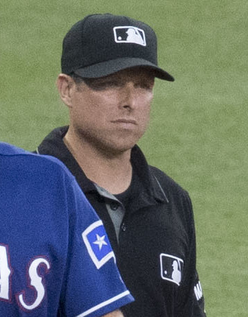 Rangers at Orioles 7/17/17